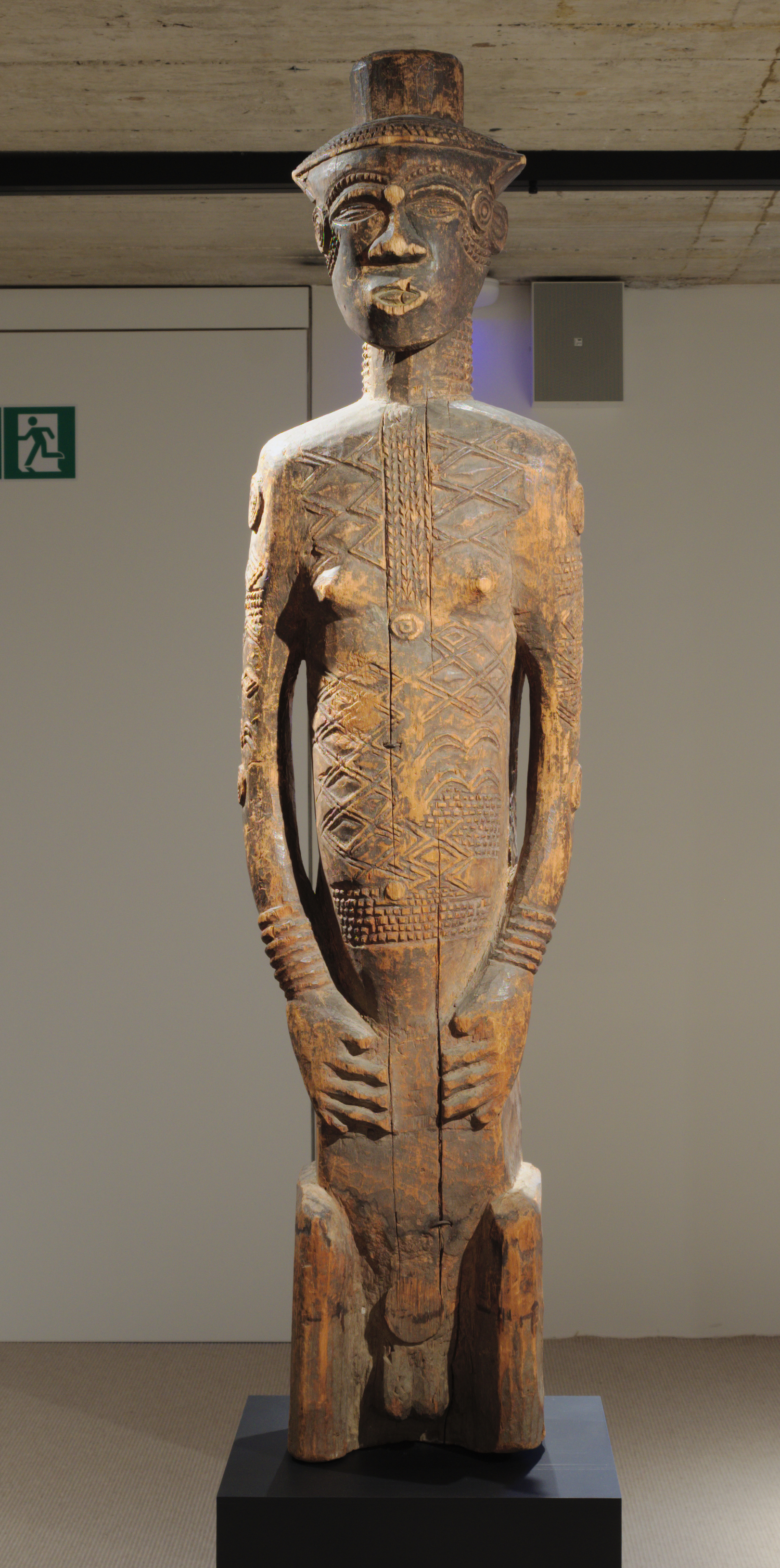 Ndengese, statue of the chief from Congo Musée L in Louvain-la-Neuve This image is part of the Natural Image Noise Dataset